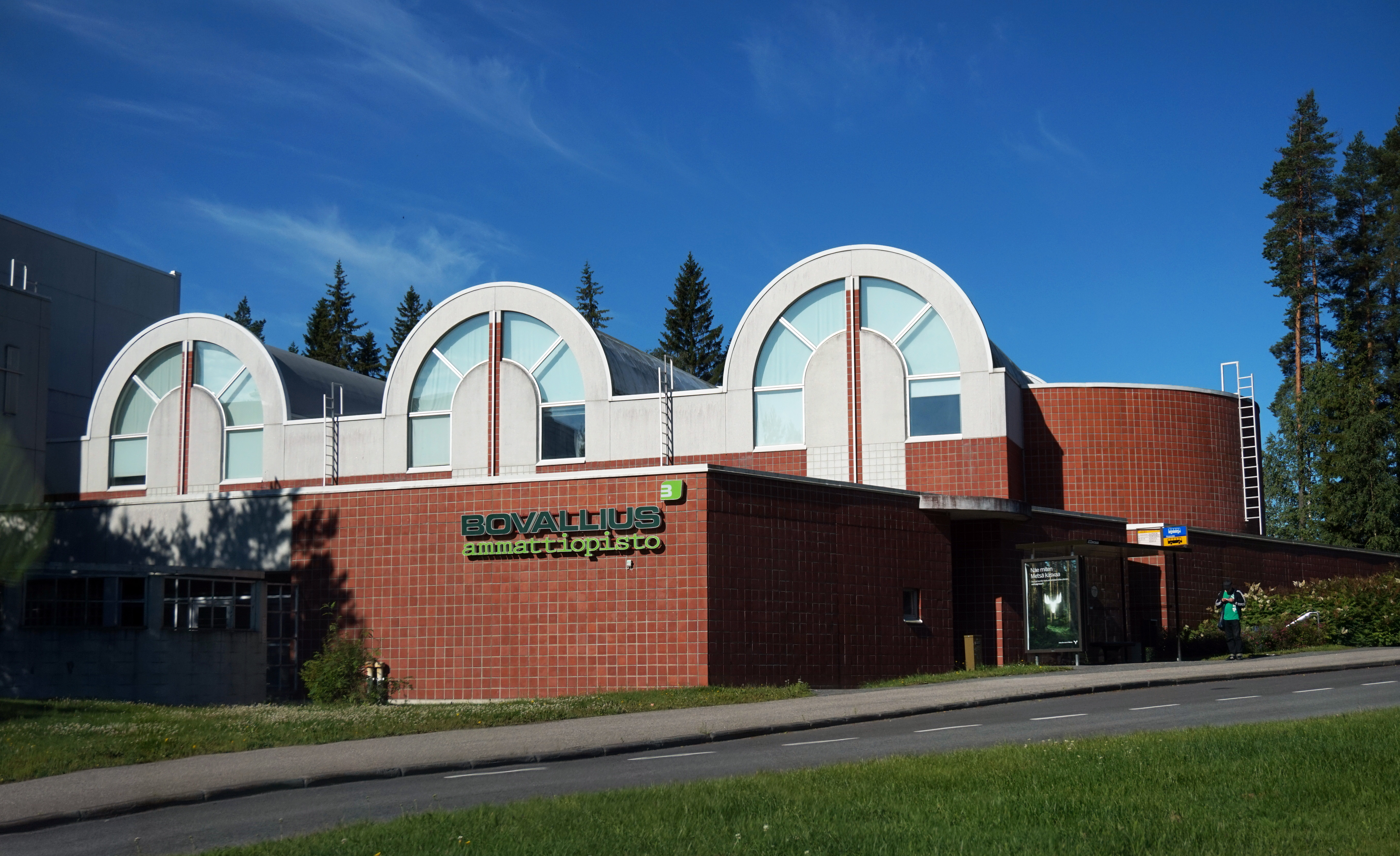 The school Bovallius near a hospital in Jyväskylä.